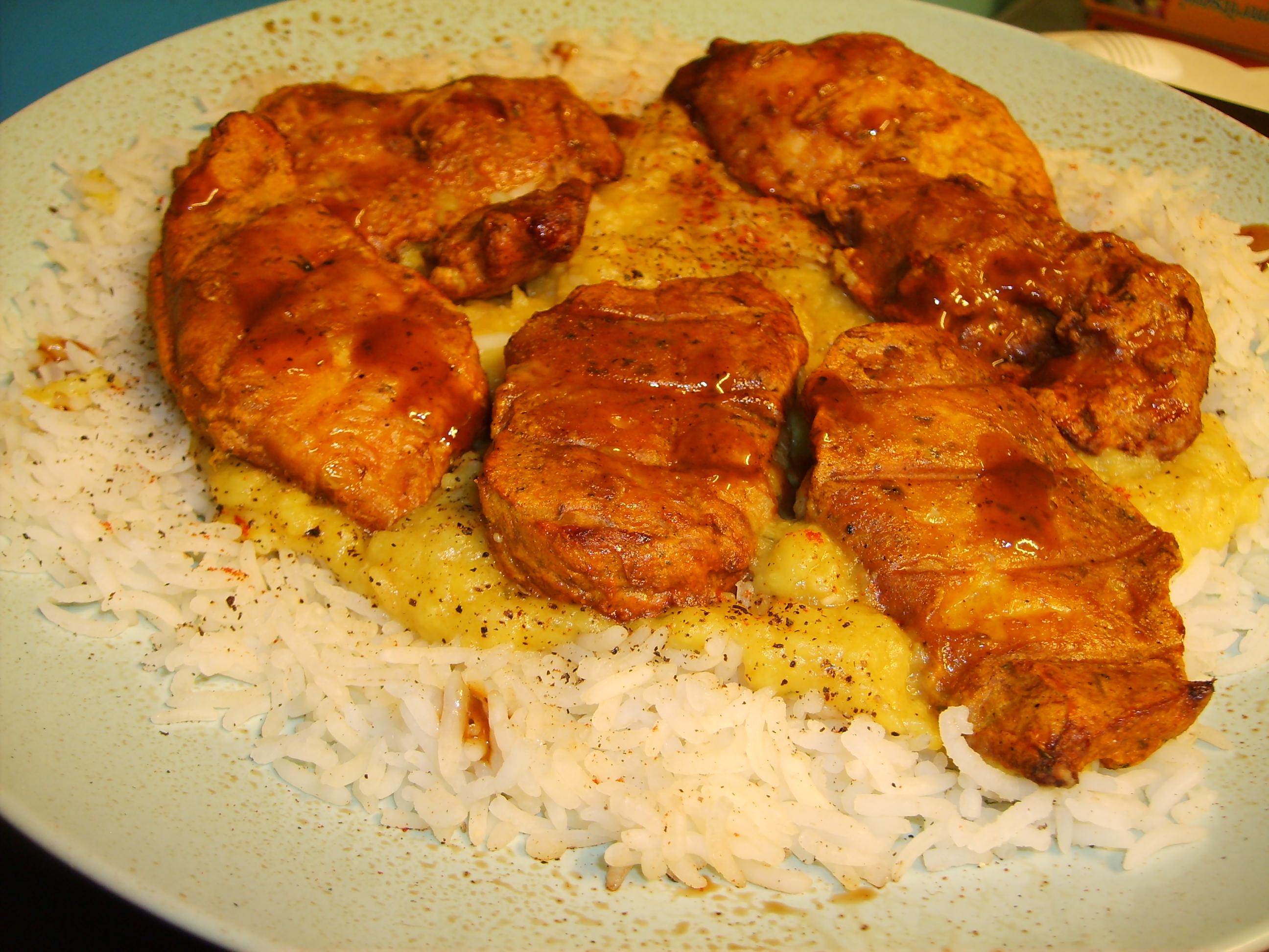 curry and rice